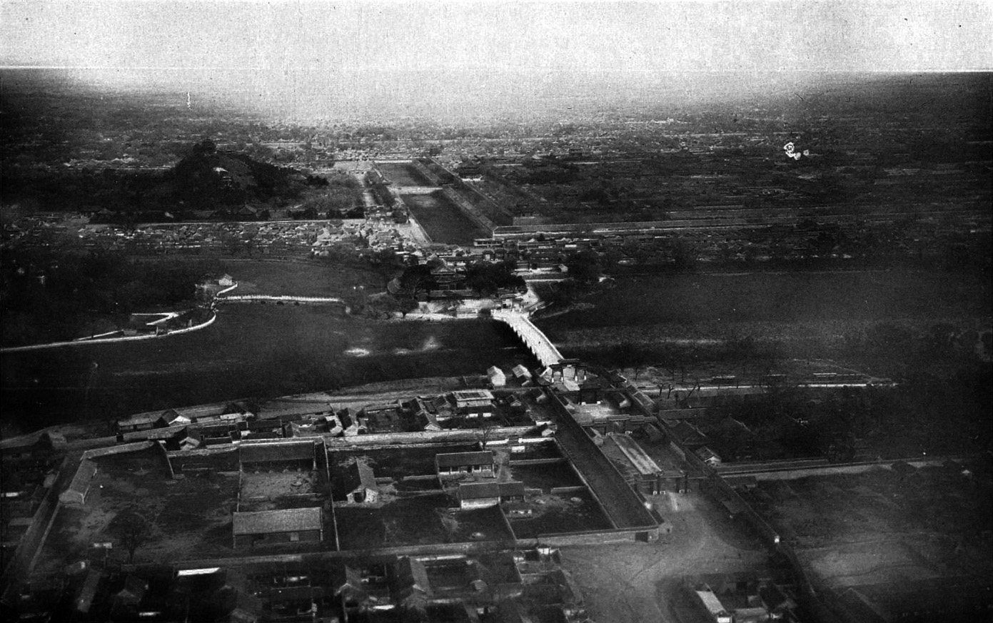 Image from La Chine à terre et en ballon.